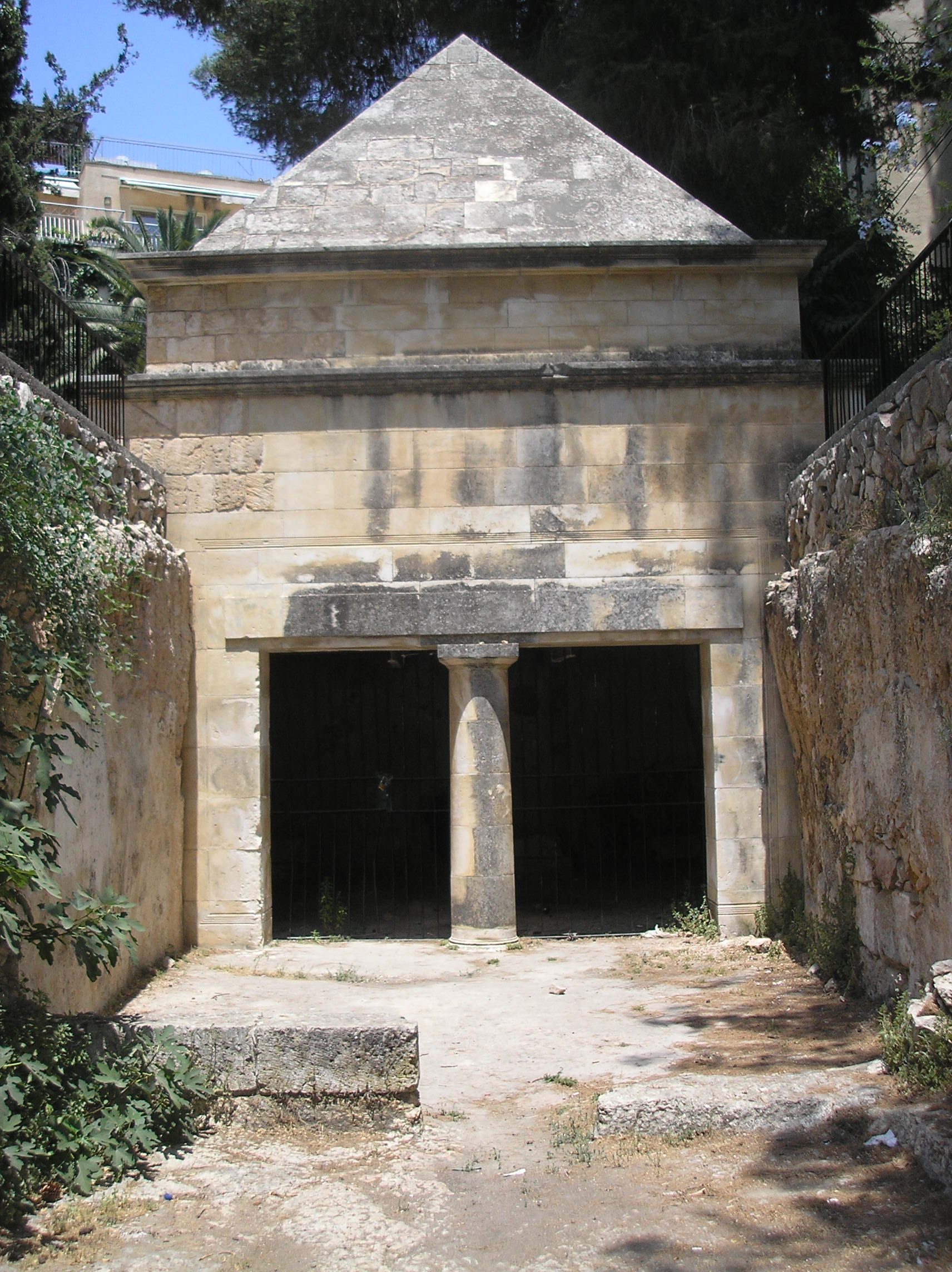 Jason's Tomb, Rehavia, Jerusalem